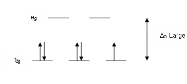 Low spin complex crystal field diagram